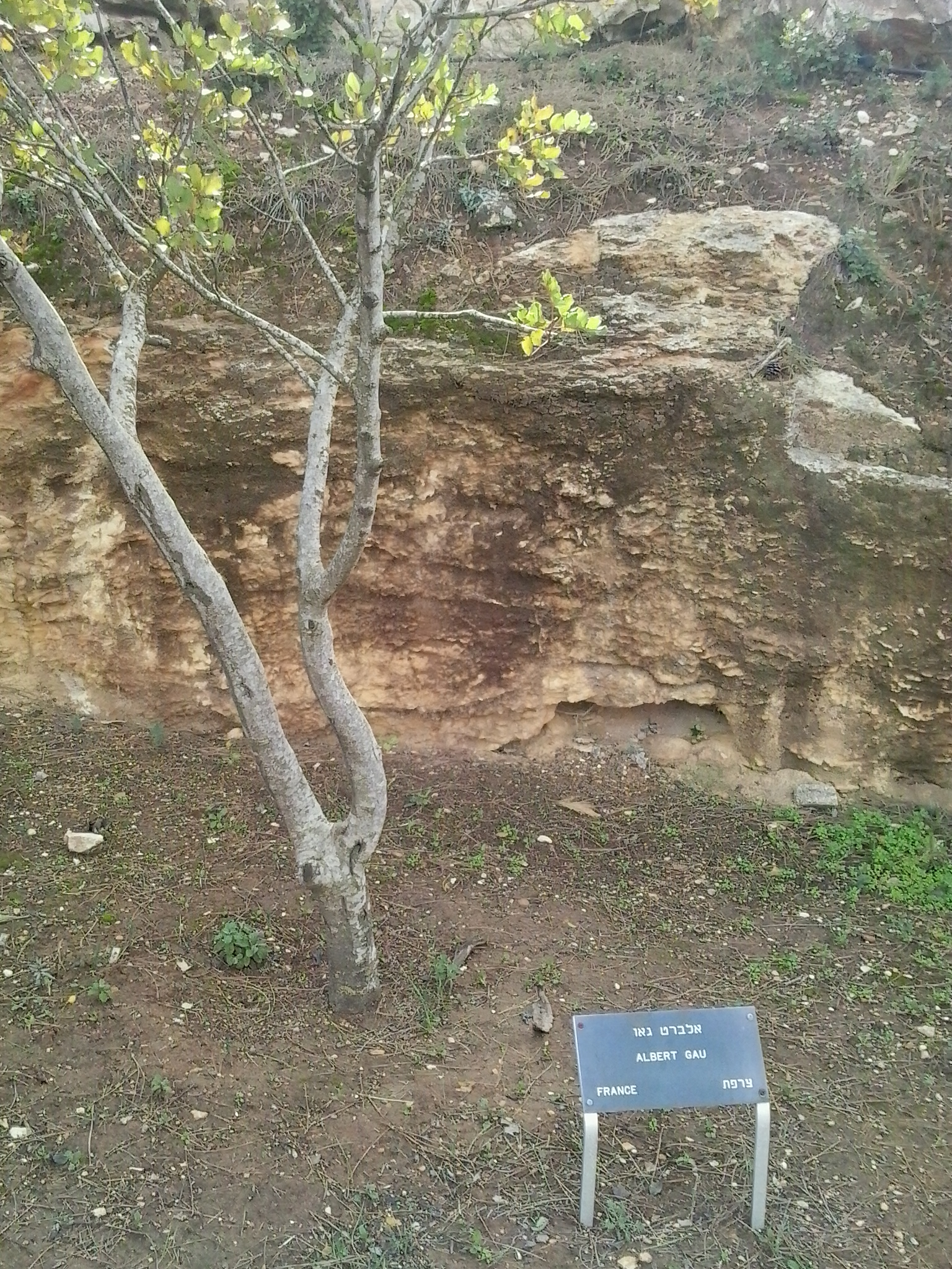 a tree planted at Yad Vashem honoring Albert Gau